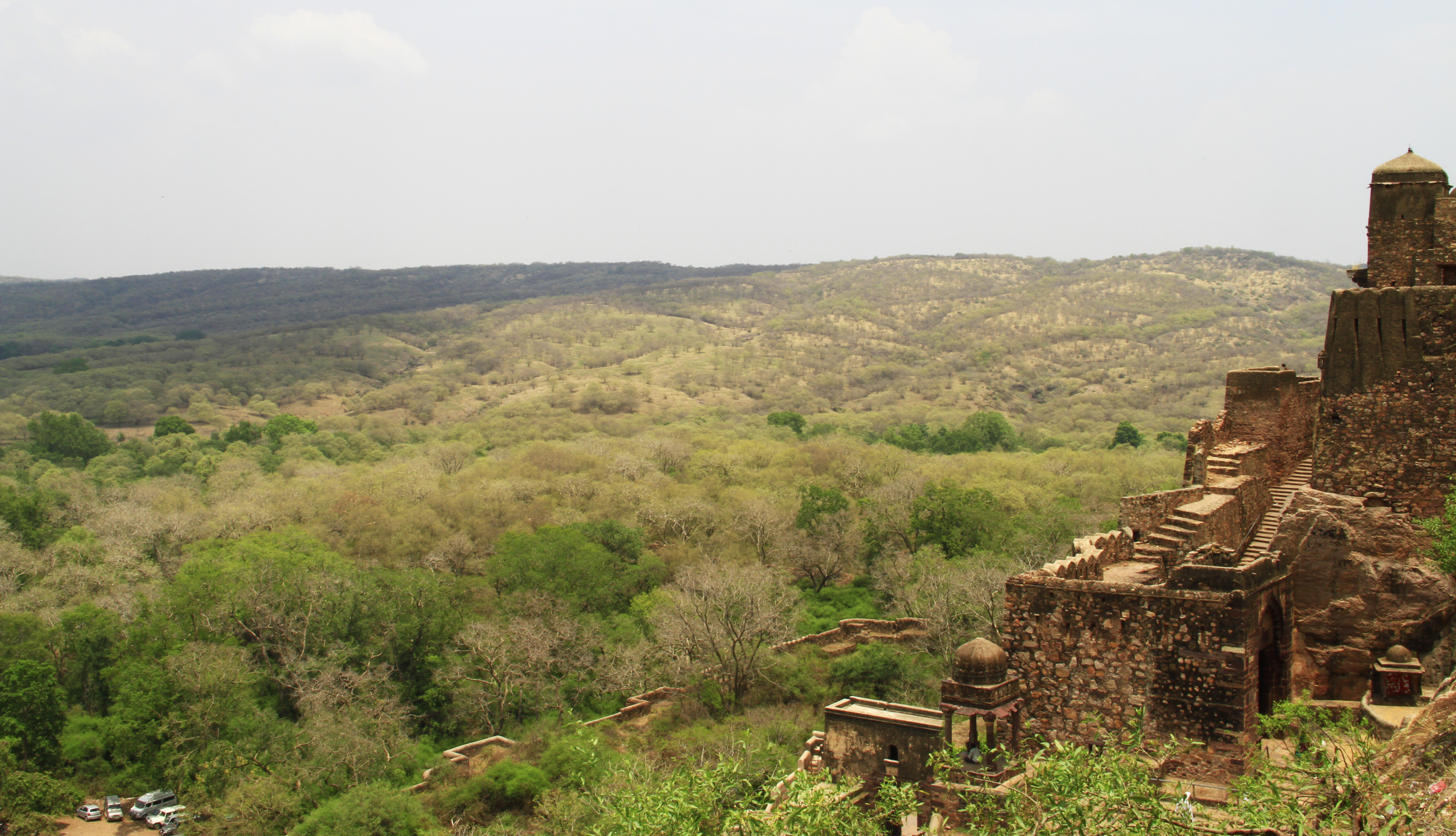 ranthambore fort and the national park beyond